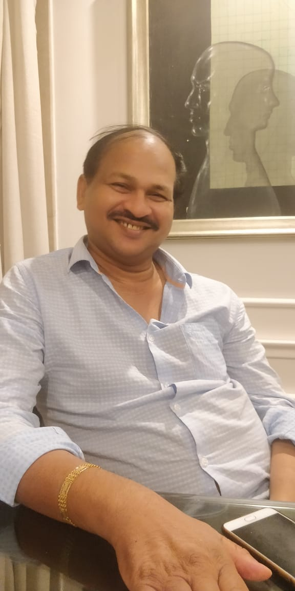 This is the image of an acquaintance, Mr R R Venkat. He is a film producer in South India